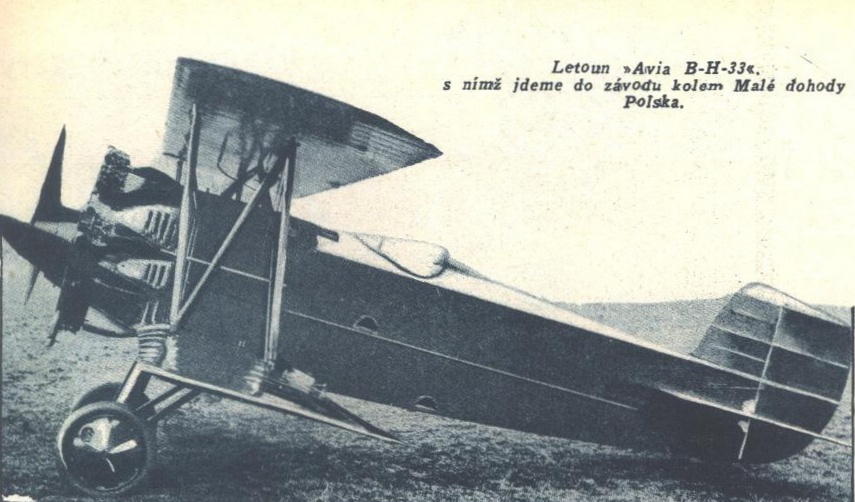 Aircraft Avia BH-33 prepared for the race "Kolem Malé dohody" 1929